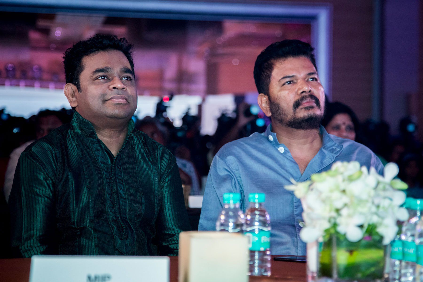 AR Rahman and Shankar at Oru Kadhai Sollattumaa Audio Launch